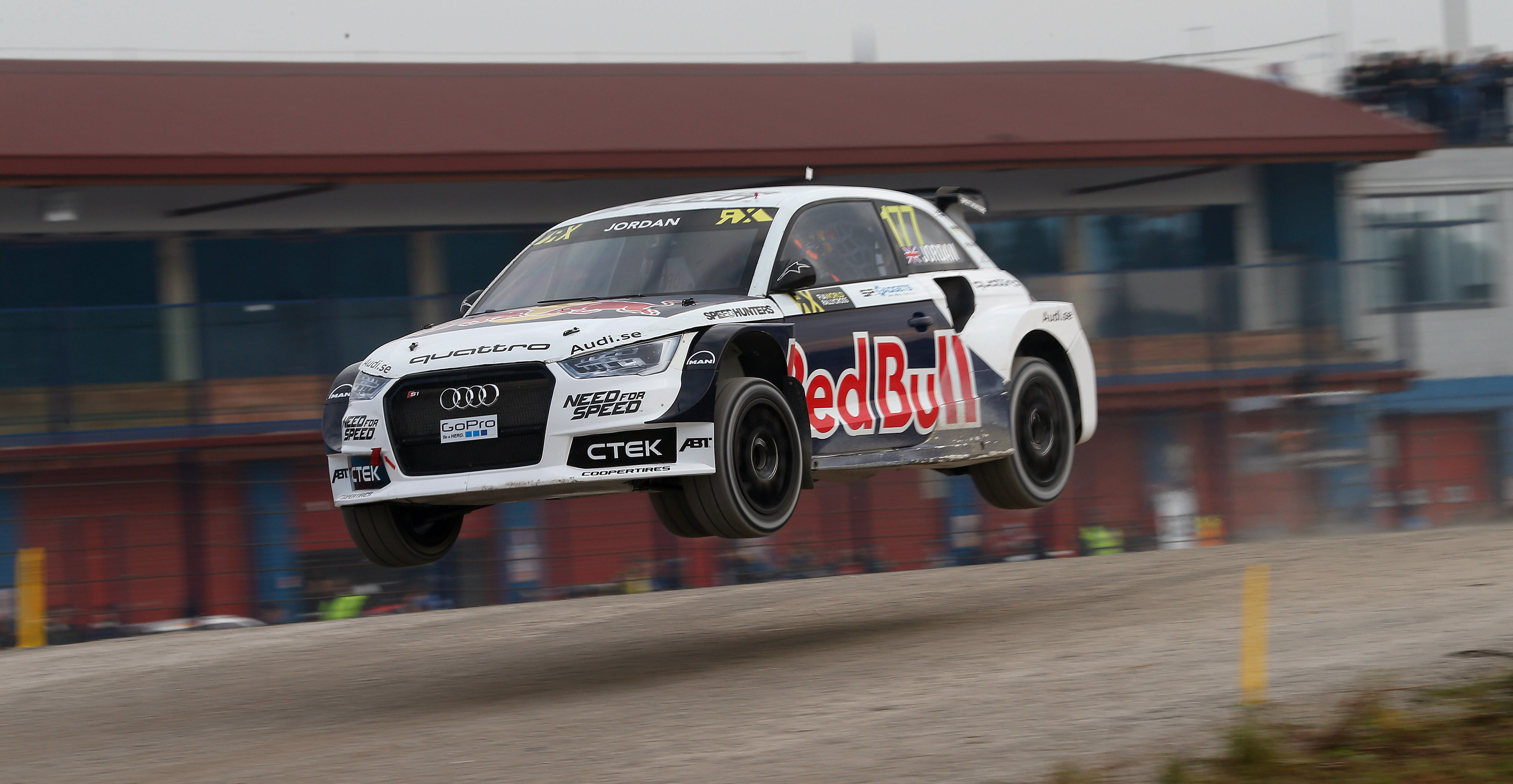 2015 FIA World Rallycross Championship // Round 12 // Franciacorta, Italy // 16-18 October 2015 // Worldwide Copyright: EKS/McKlein